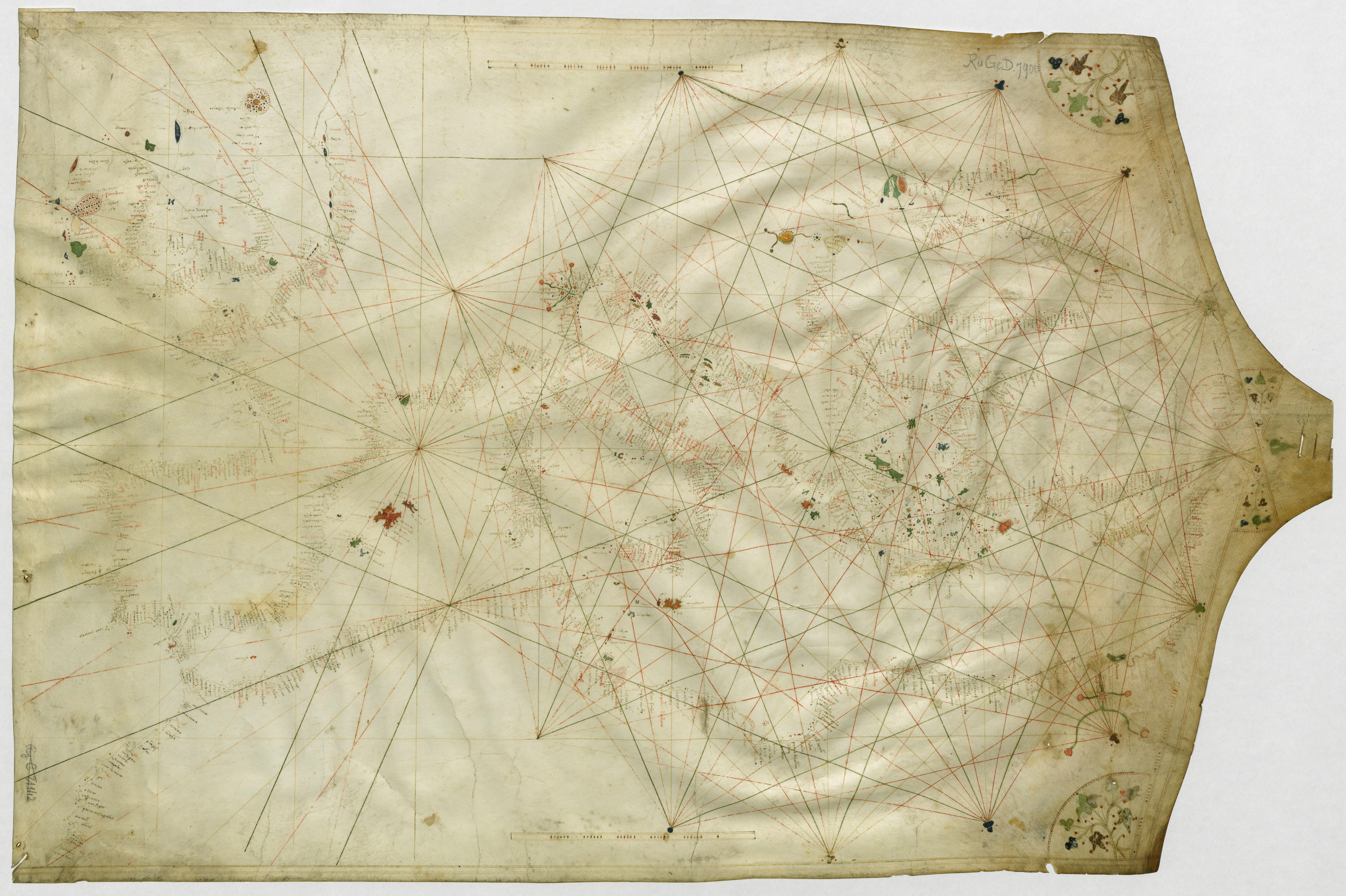 Portolan chart by Venetian cartographer Albertinus de Virga, dated 1409, covering the Mediterranean, Black Sea and Atlantic coast. Currently held by the Bibliothèque nationale de France, Paris (D.7900)